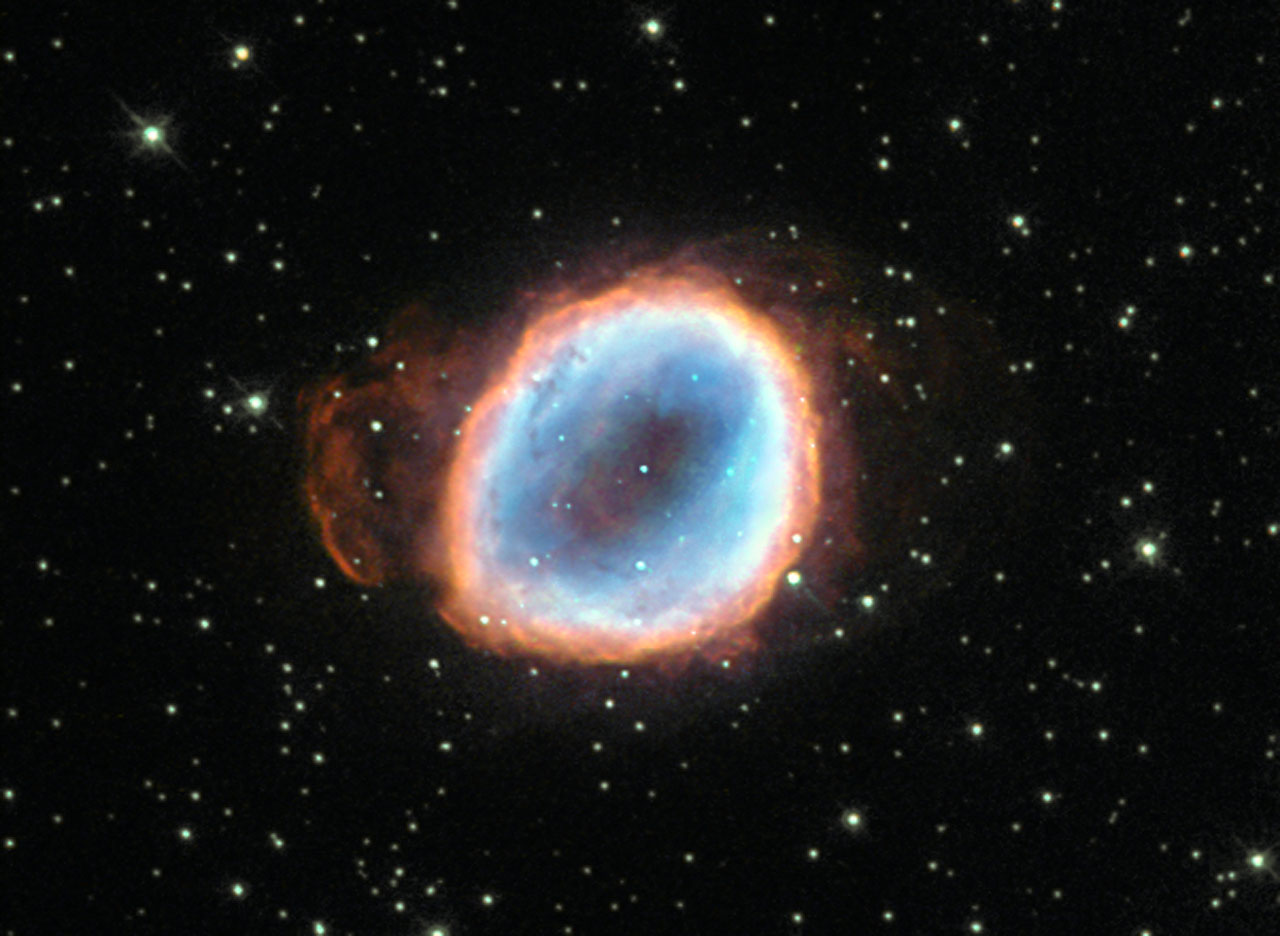 A dying star’s final moments are captured in this image from the NASA/ESA Hubble Space Telescope. The death throes of this star may only last mere moments on a cosmological timescale, but this star’s demise is still quite lengthy by our standards, lasting tens of thousands of years! The star’s agony has culminated in a wonderful planetary nebula known as NGC 6565, a cloud of gas that was ejected from the star after strong stellar winds pushed the star’s outer layers away into space. Once enough material was ejected, the star’s luminous core was exposed and it began to produce ultraviolet radiation, exciting the surrounding gas to varying degrees and causing it to radiate in an attractive array of colours. These same colours can be seen in the famous and impressive Ring Nebula (heic1310), a prominent example of a nebula like this one. Planetary nebulae are illuminated for around 10 000 years before the central star begins to cool and shrink to become a white dwarf. When this happens, the star’s light drastically diminishes and ceases to excite the surrounding gas, so the nebula fades from view. A version of this image was entered into the Hubble’s Hidden Treasures basic image competition by contestant Matej Novak.